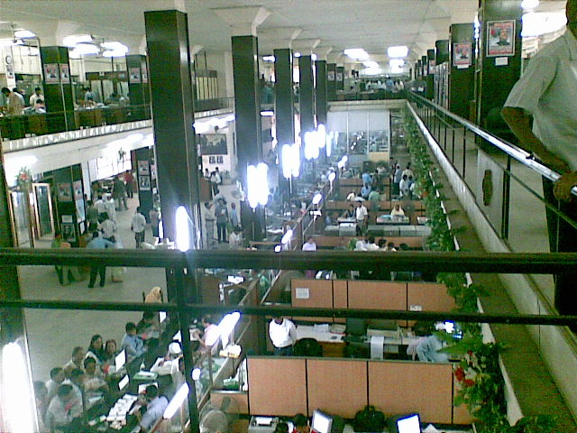 Inside of Sonali Bank Head Office at Motijhil, Dhaka.